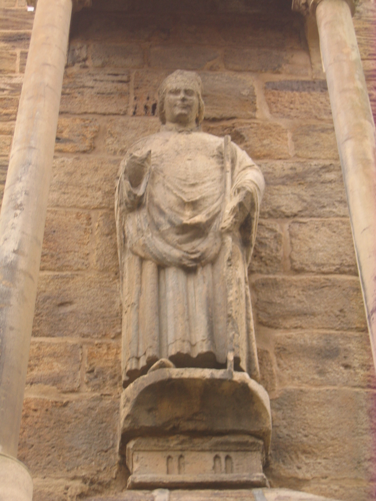 Cathedral in Minden, District of Minden-Lübbecke, North Rhine-Westphalia, Germany.